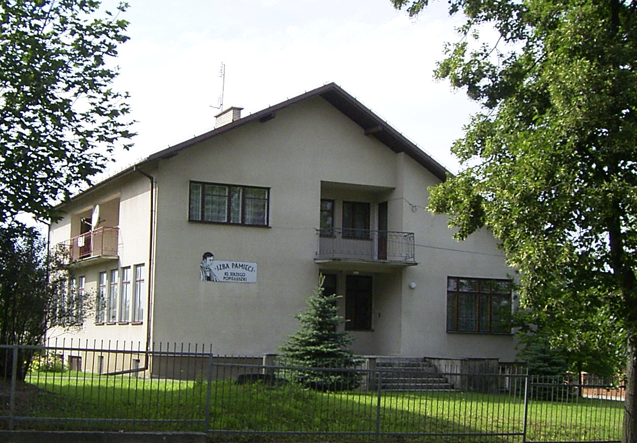 Memory room (a small museum) of Jerzy Popiełuszko, Suchowola, Poland